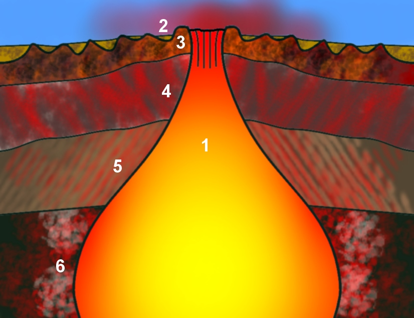 A schematic picture of ophiolite suite layers along with a magma chamber (1): sediments (2), pillow basalts (3), basaltic sheeted dike swarms (4), layered gabbro (5) and fractionation cumulates (6).